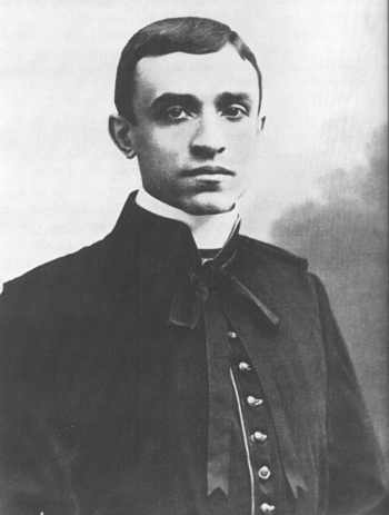 Pacelli's ordination occurred on Aug. 2, 1899.